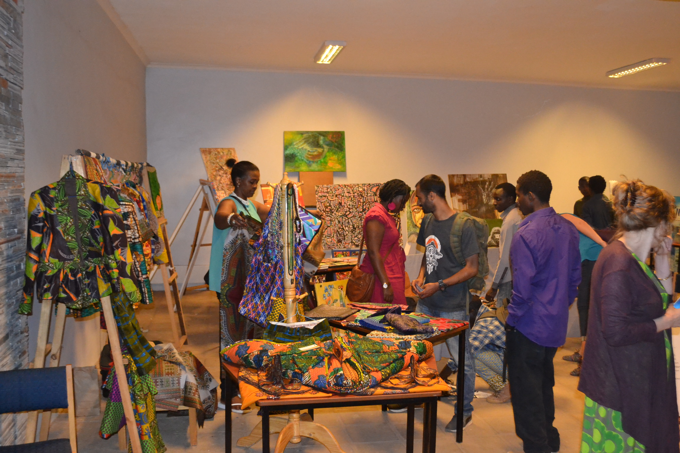 A wide-picture looking at many Customers and visitors gathered on a stand of African Kitenge Clothes by Rwandan Actress and Fashion Designer Devota Benegusenga during Ubumuntu Arts Festival 2015 in Kigali, Rwanda. This is an image of Cultural Fashion or Adornment from Rwanda